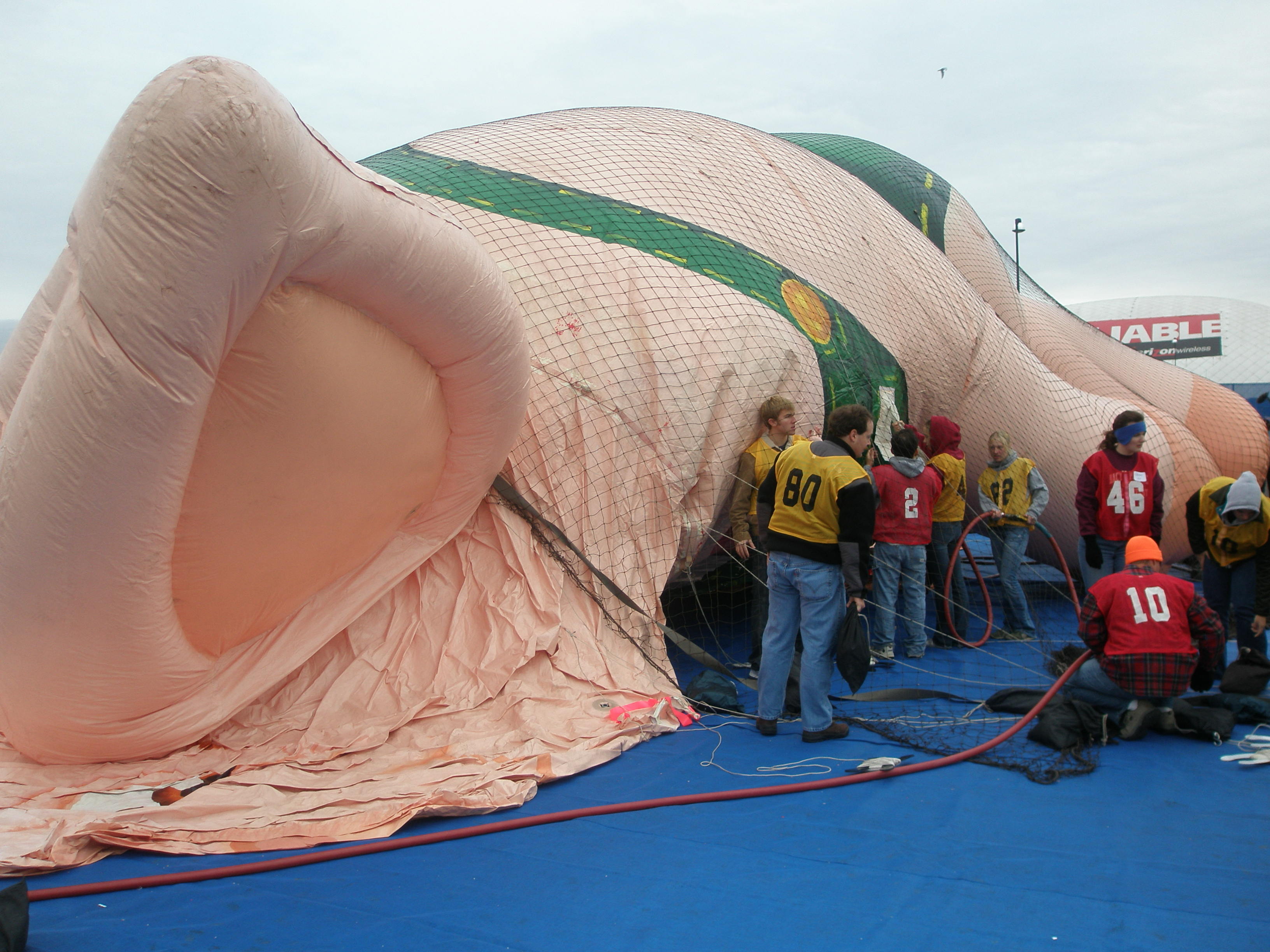 This is a picture of the training for the Inflation crew of the Macy's Thanksgiving Day Parade. It currently is done in the parking lot of Giants Stadium a few weeks before the parade date.